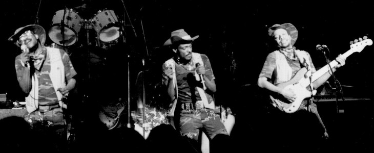 American funk musical group Gap Band in Paris, France